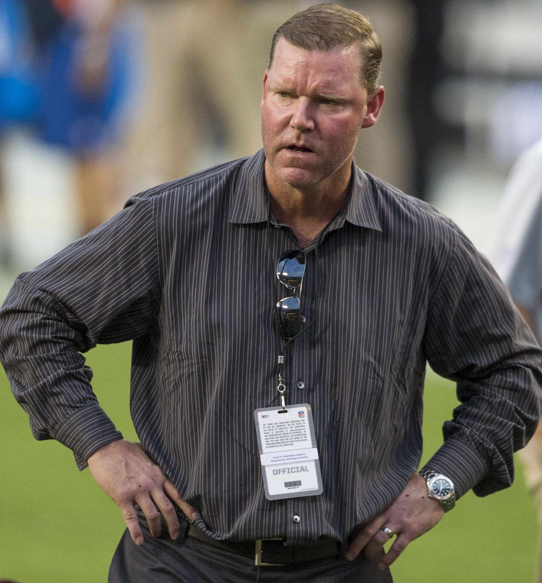 Jaguars at Redskins 9/3/15